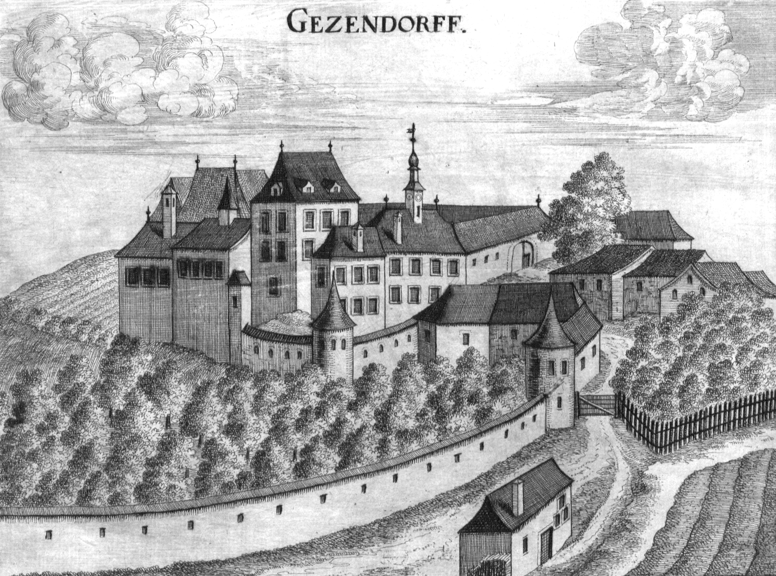 Castle Gezendorff, today Götzendorf in Upper Austria